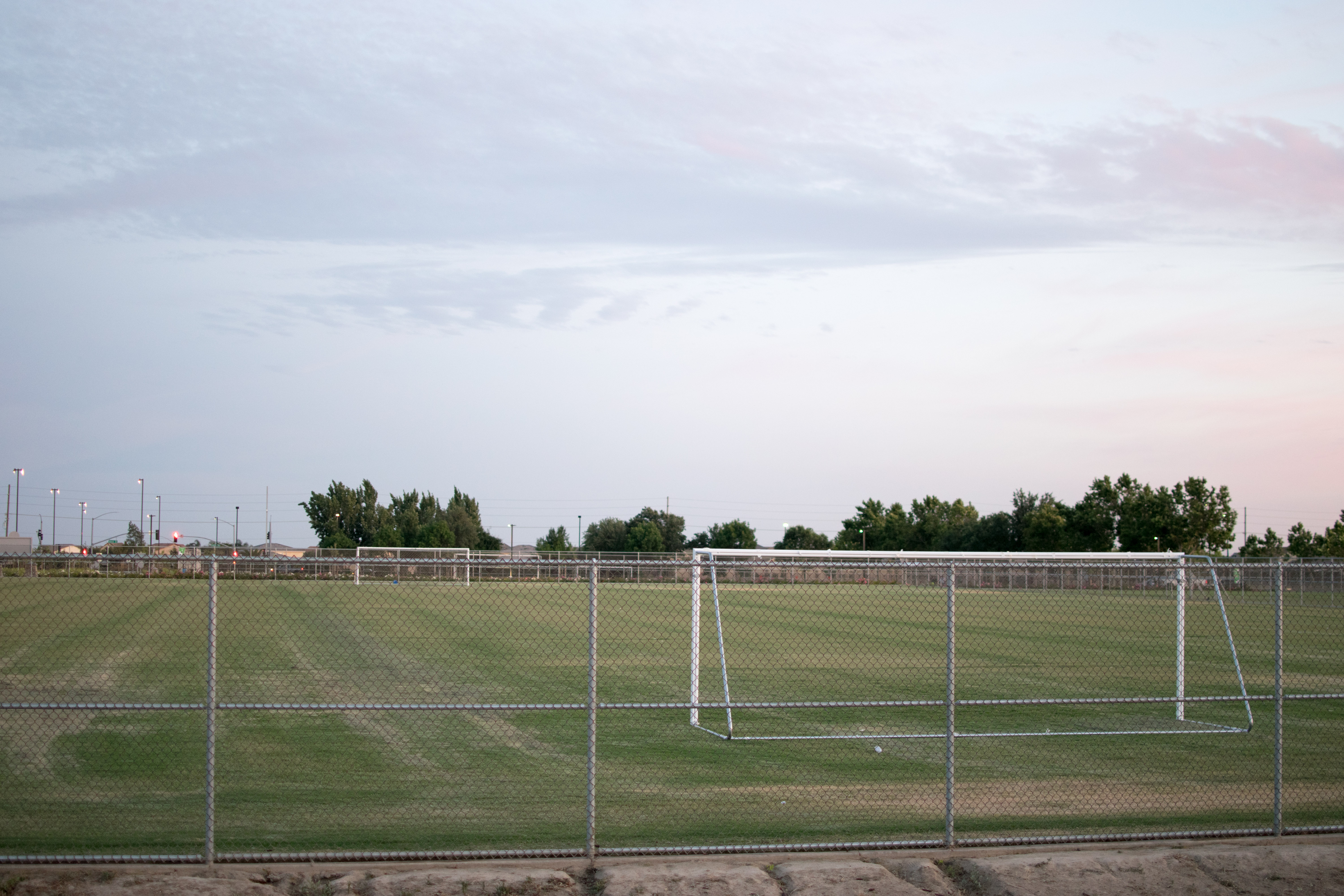 A Soccer Field at Ceres River Bluff Regional Park